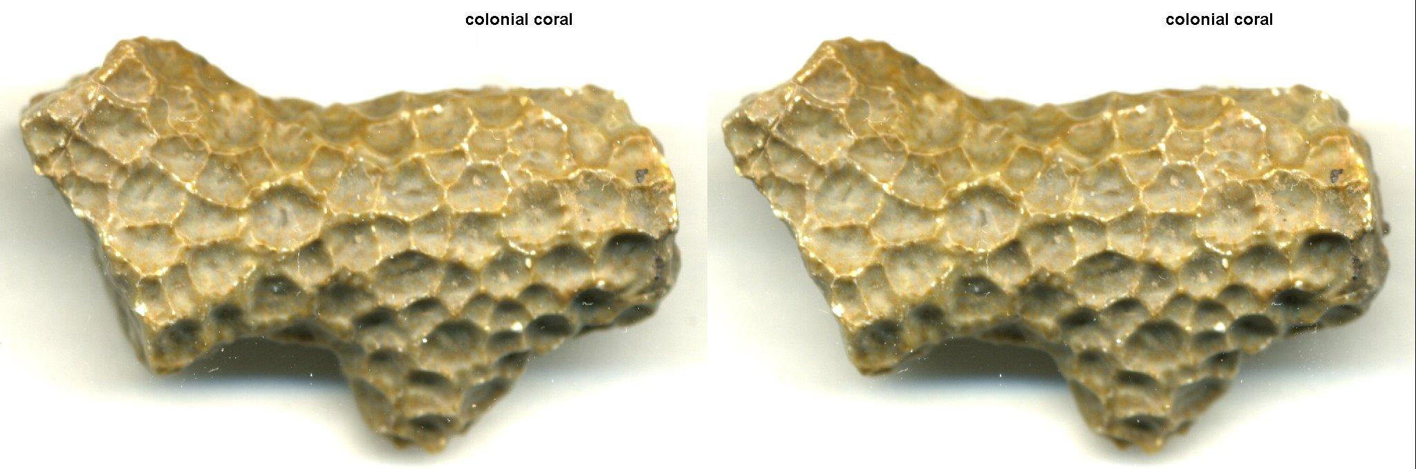 Tabulate Coral, Favosites, from the Devonian